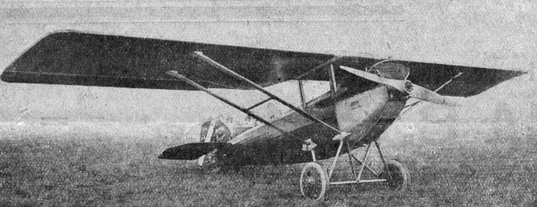 Hanriot H.33 photo from Les Ailes December 16, 1926